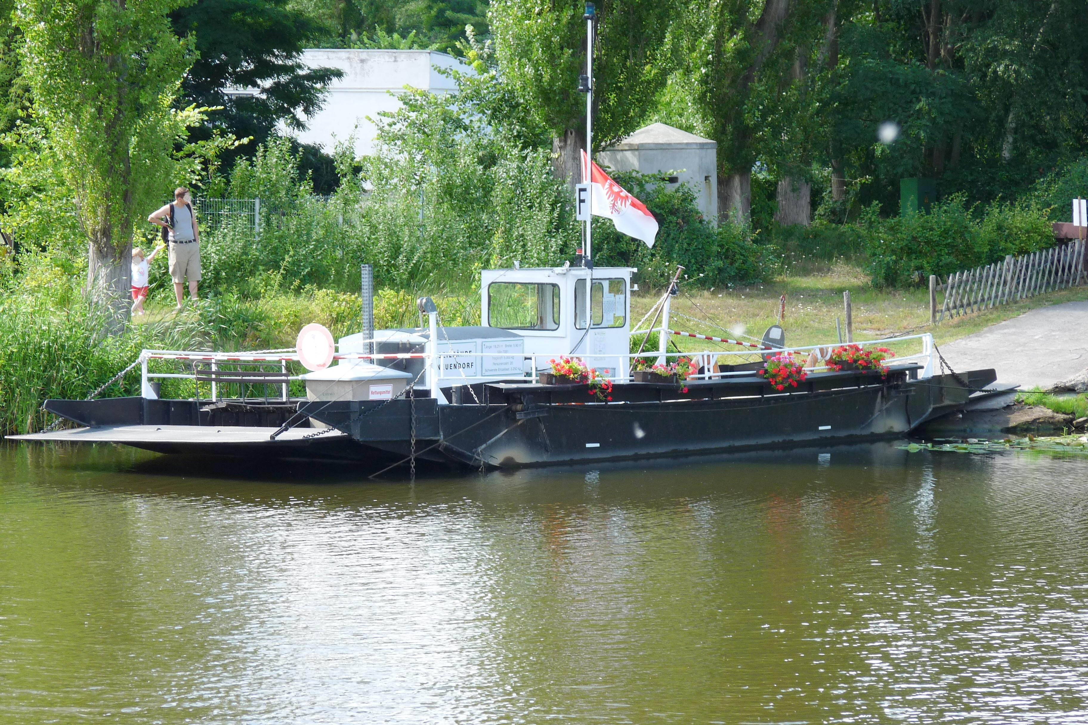 Ferry over river Havel (named Brandenburger Niederhavel) in the city of Brandenburg (Havel)